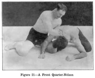 Quarter Nelson as illustrated the scan of Figure 21 in Lessons in Wrestling & Physical Culture.